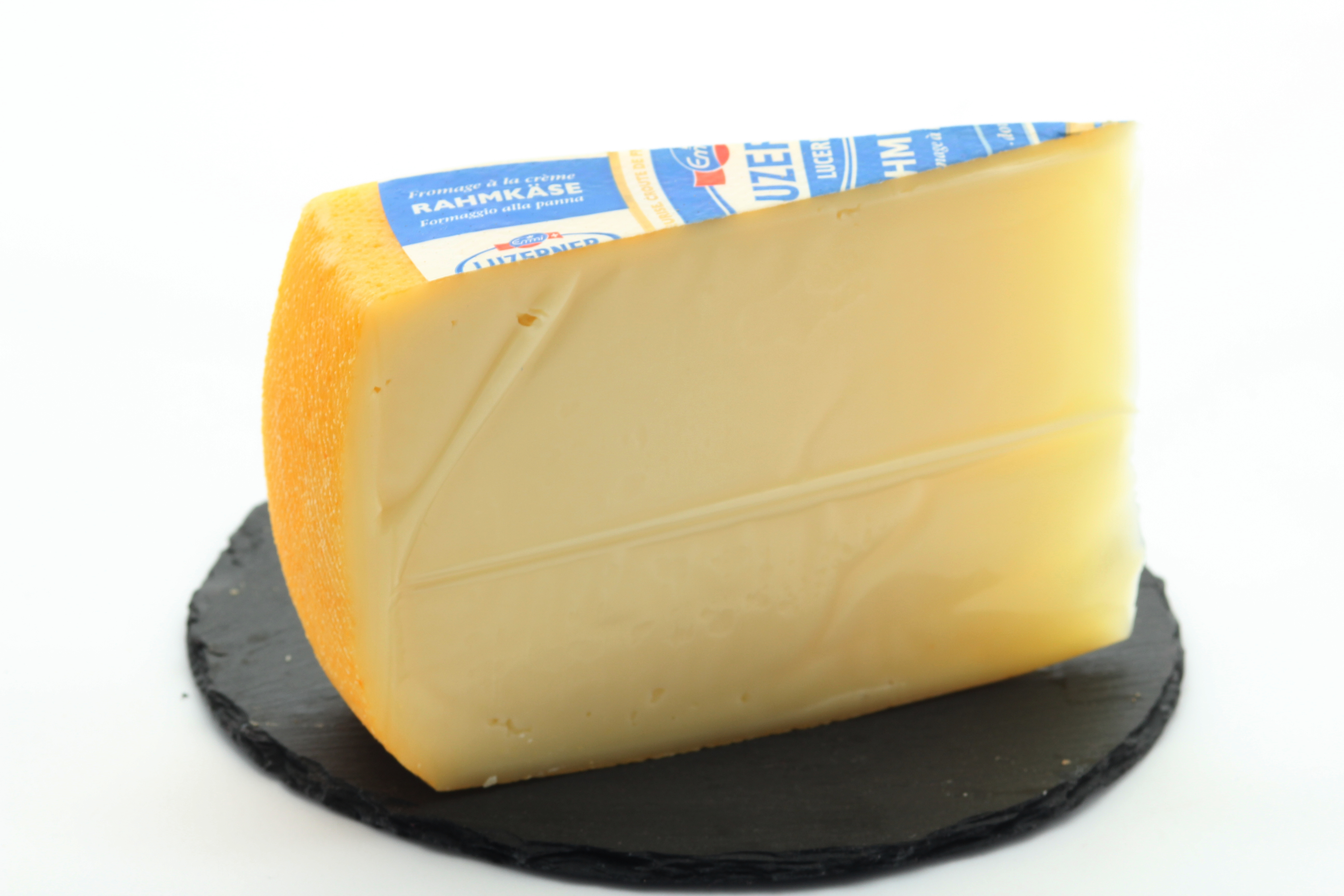 Luzerner - Cream cheese. Swiss semi-hard cheese, from pasteurized cow's milk.